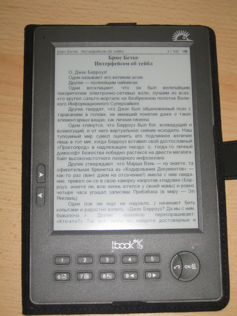 lBook V3 e-book